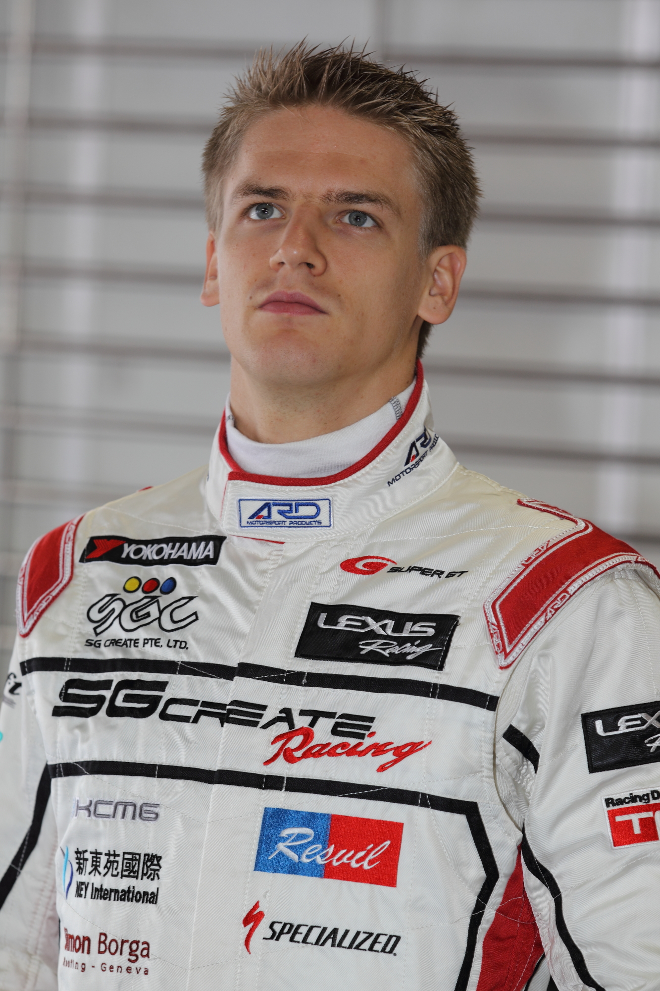 Alexandre Imperatori standing in the pit of SGC Racing during the 2012 Super GT Round 6 at Fuji Speedway